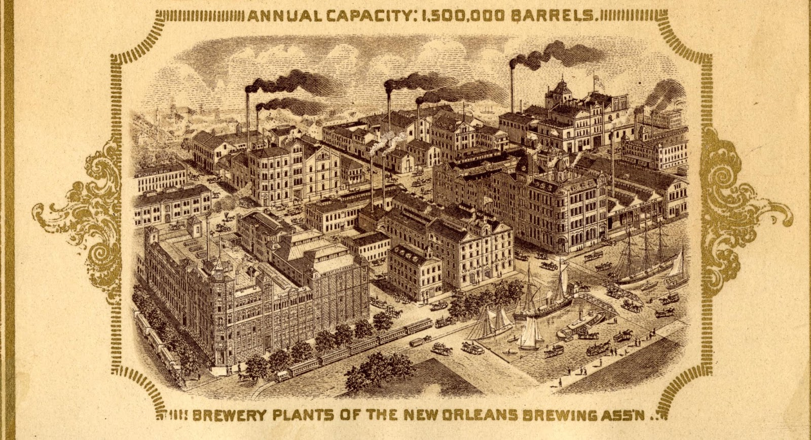 Somewhat fictionalized engraving depicting New Orleans Brewing Association beer brewing and bottling plants, 1893